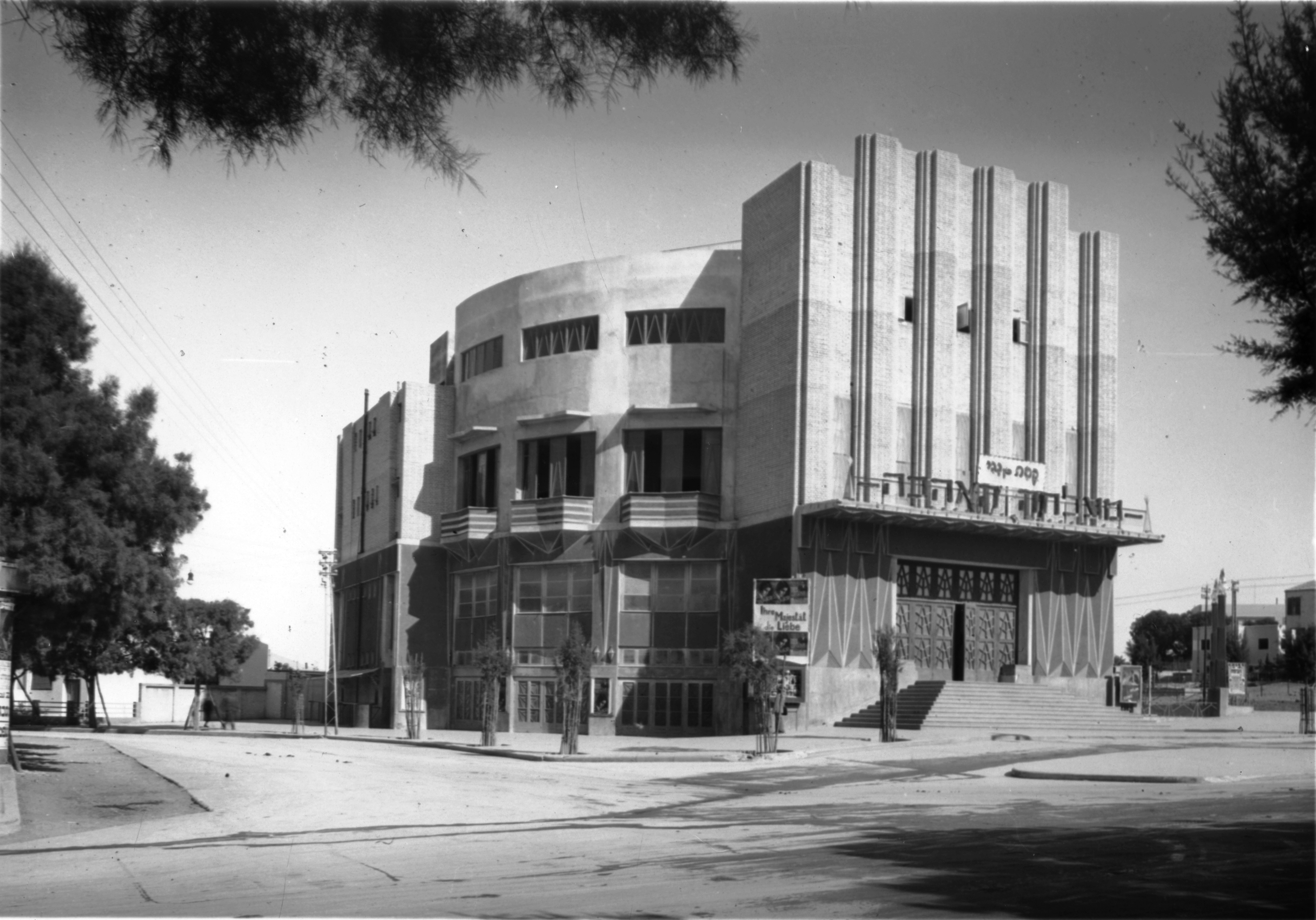 Tel Aviv. Moghrabi theater. Movie picture house. between 1920 and 1946, from a negative taken approximately 1920 to 1946.